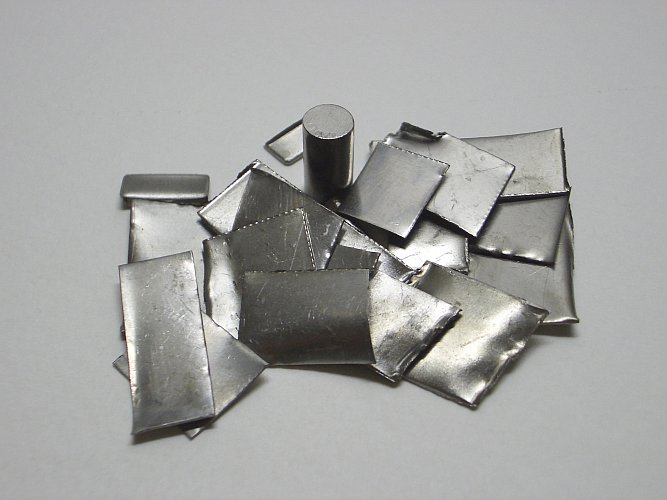 Niobium rod and sheets